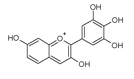 Chemical structure of robinetinidin